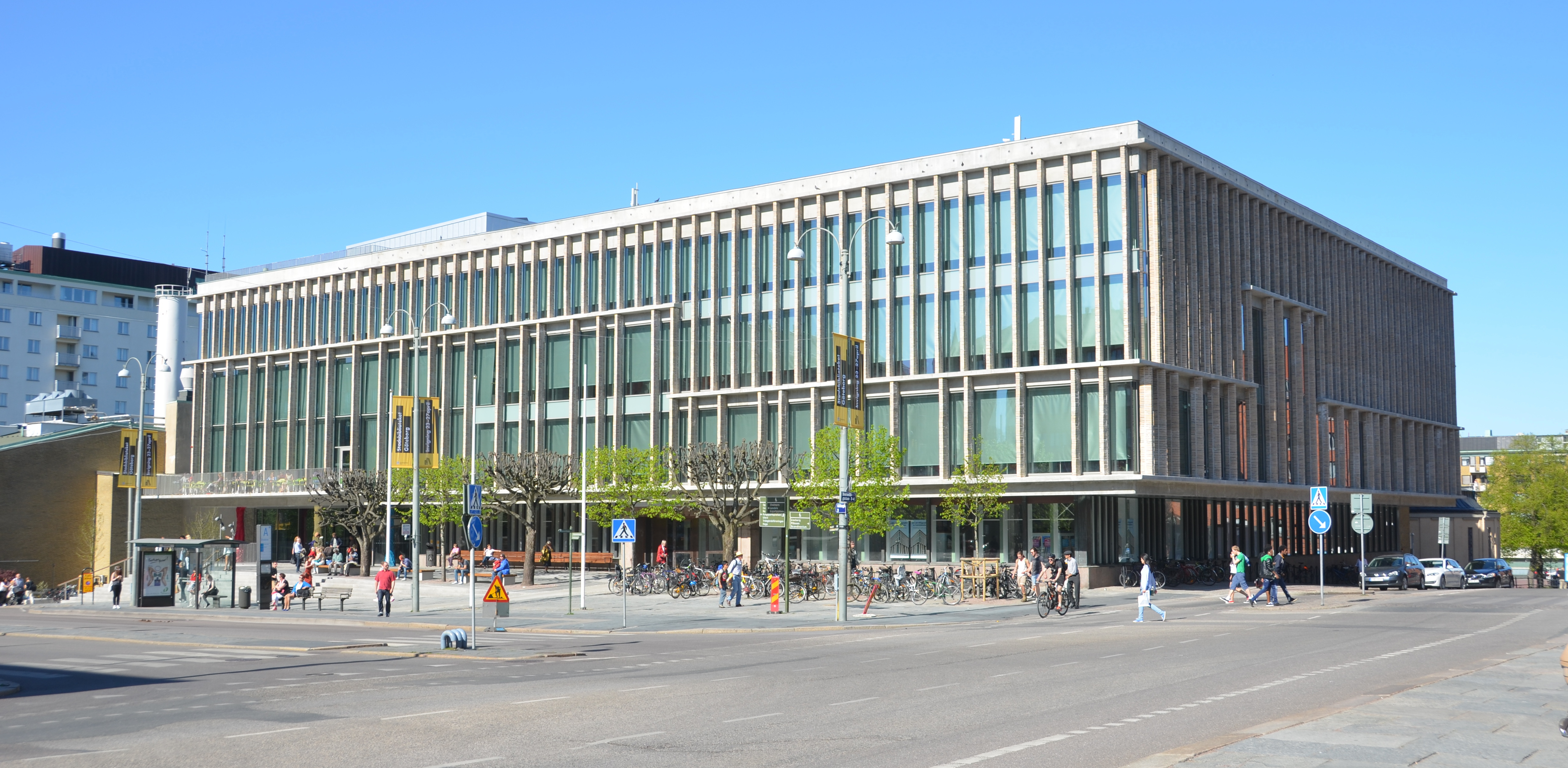 Göteborgs Stadsbibliotek (Public library in Gothenburg, Sweden), View from Götaplatsen, after refurbishment 2014